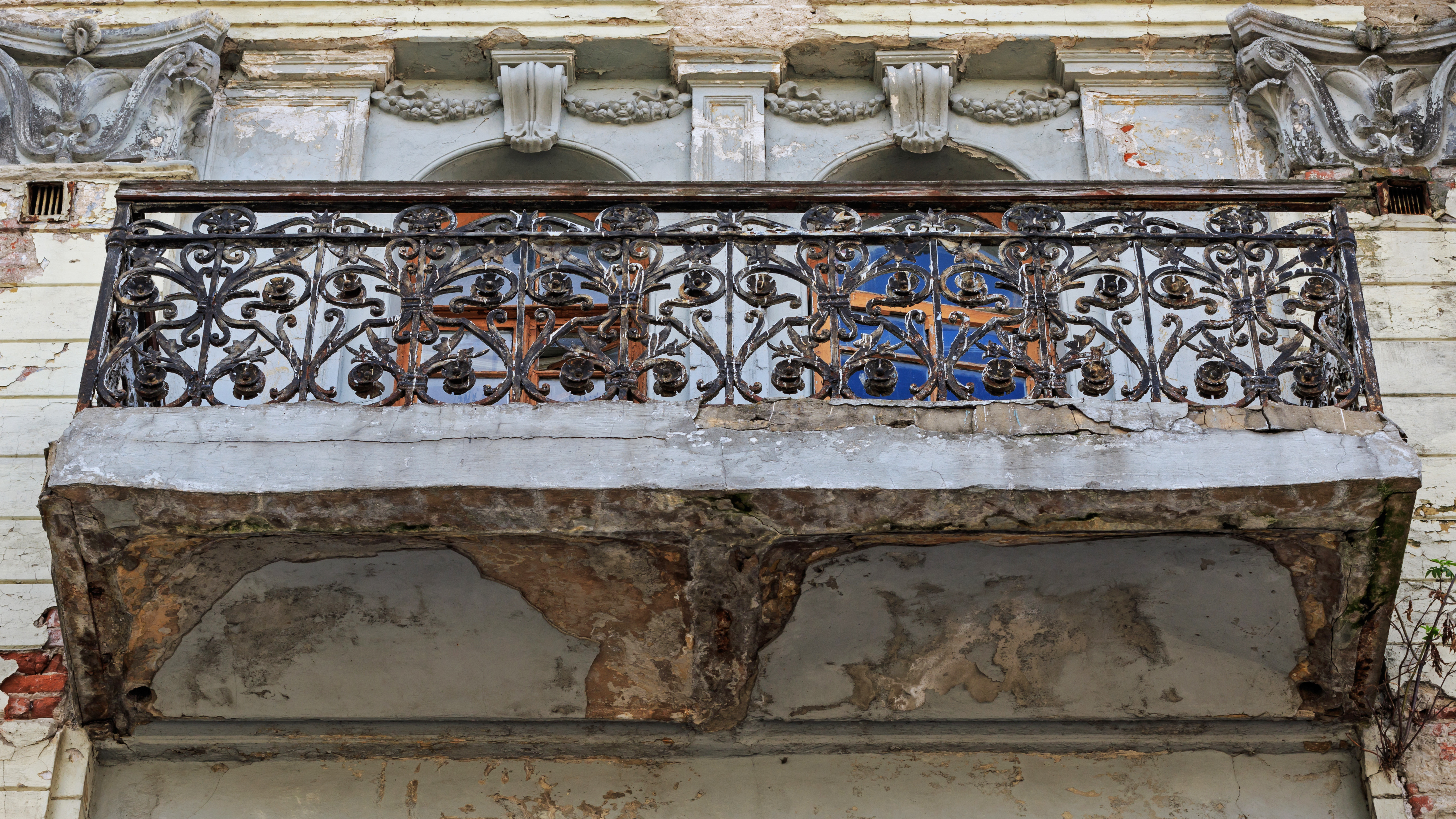 Building at 3, Markina Square (detail) in Nizhny Novgorod, Russia